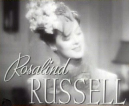 Cropped screenshot of Rosalind Russell from the trailer for the film The Women.